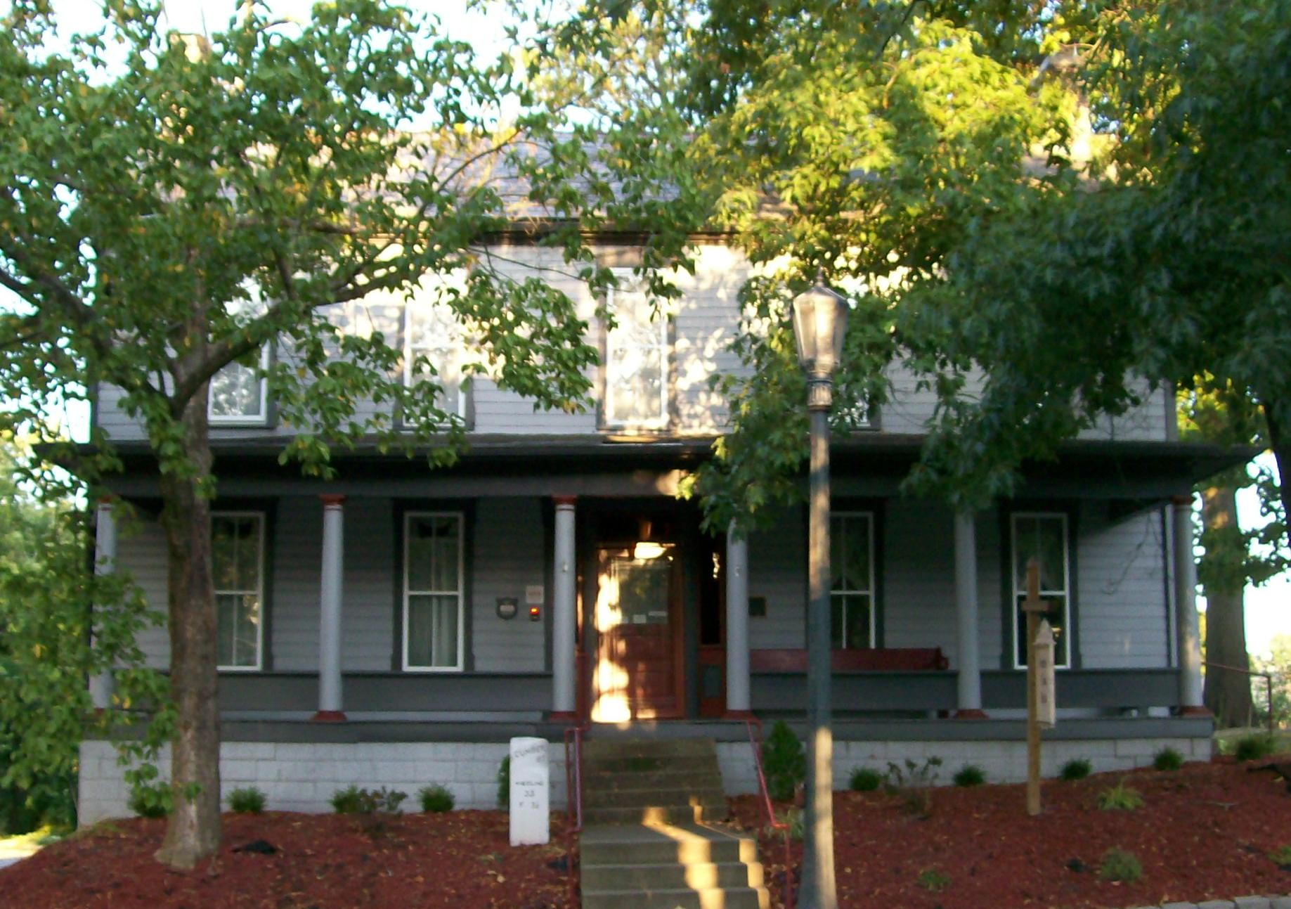 Front of the McCracken-McFarland House, located at 216 N. Eighth Street in Cambridge, Ohio, United States. Built in 1825, it is listed on the National Register of Historic Places.